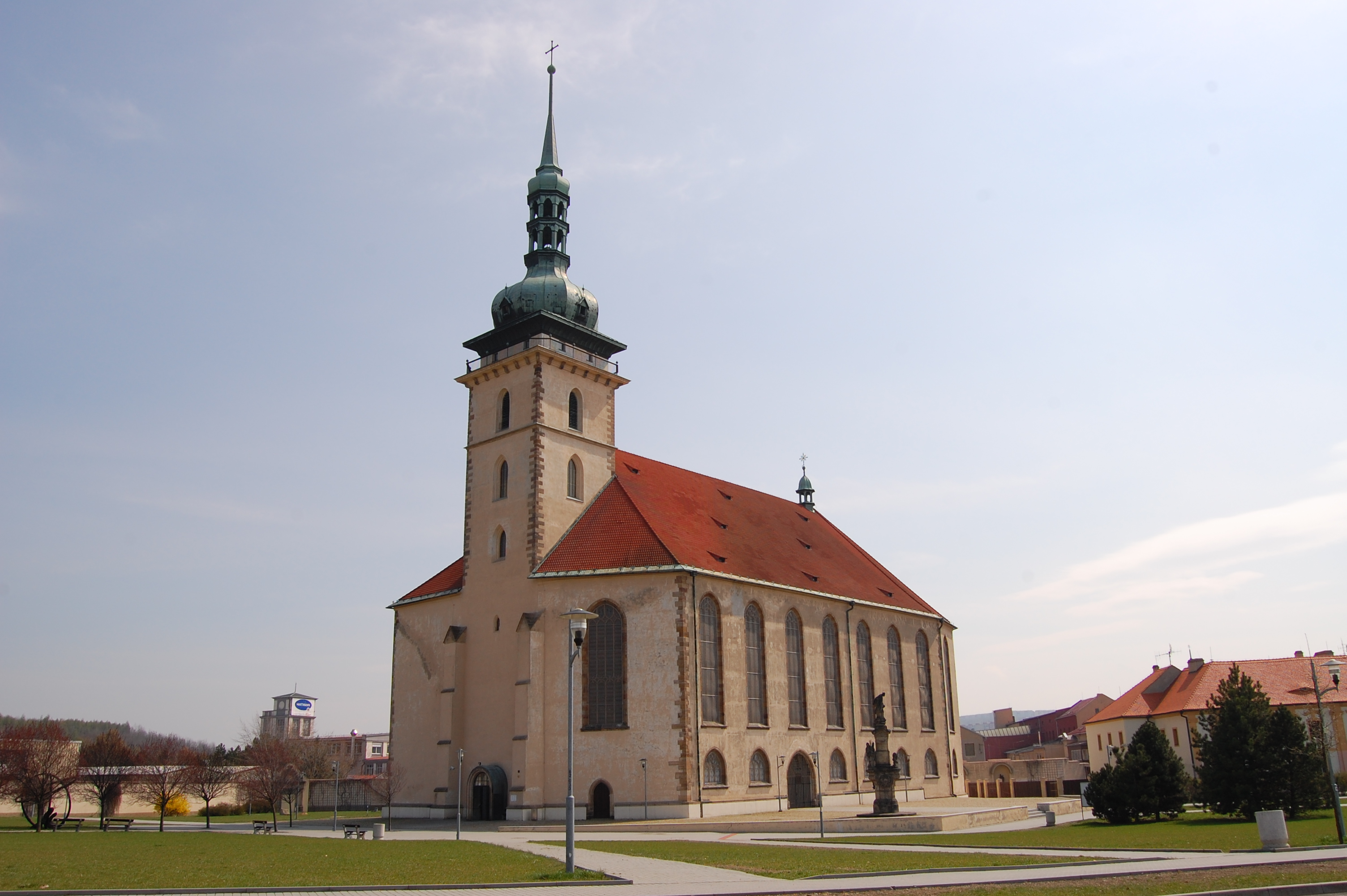 The Church of the Assumption of the Virgin Mary in Most, the Czech Republic. Česky: Děkanský kostel Nanebevzetí Panny Marie v Mostě, Česká republika.